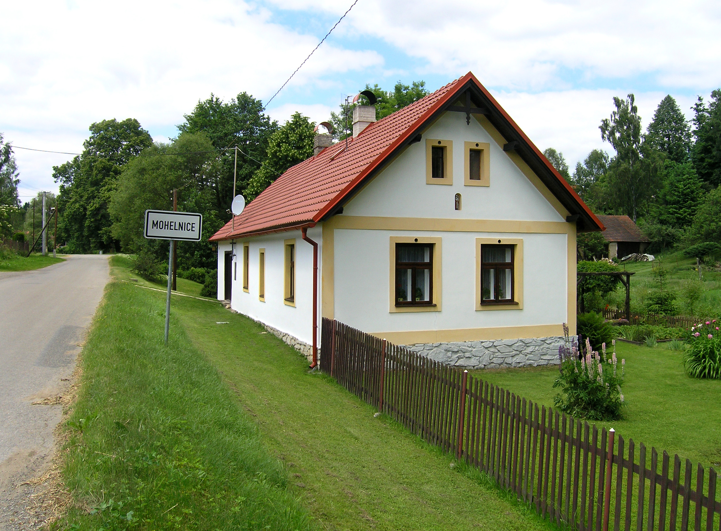 East view of Mohelnice, part of Křešín village, Czech Republic